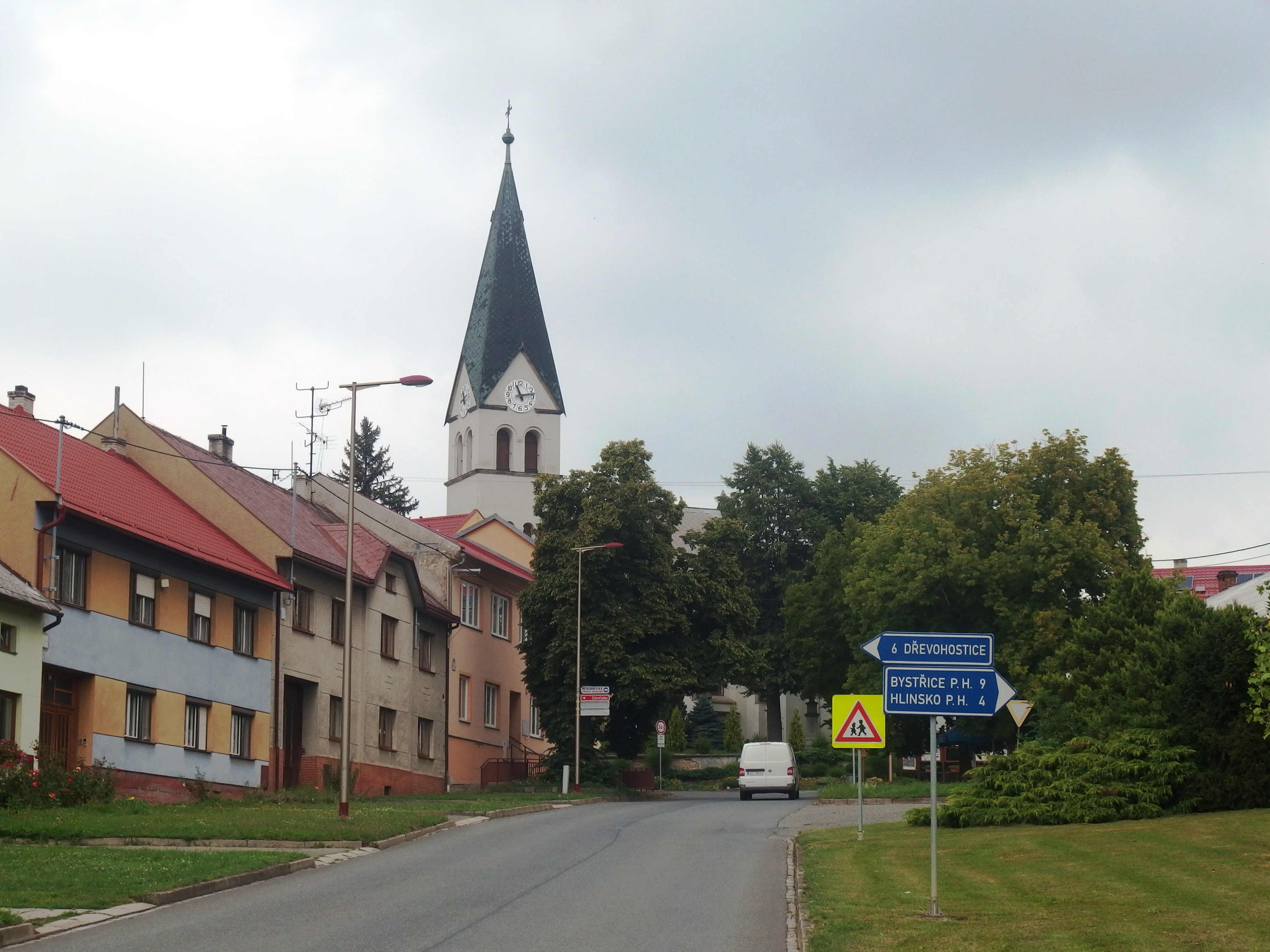 Prusinovice, Kroměříž District, Czech Republic.